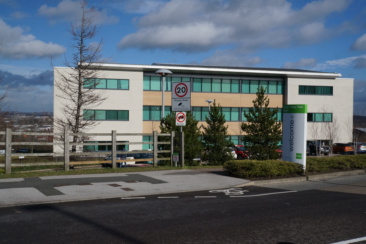 Building at Leeds Valley Park, East